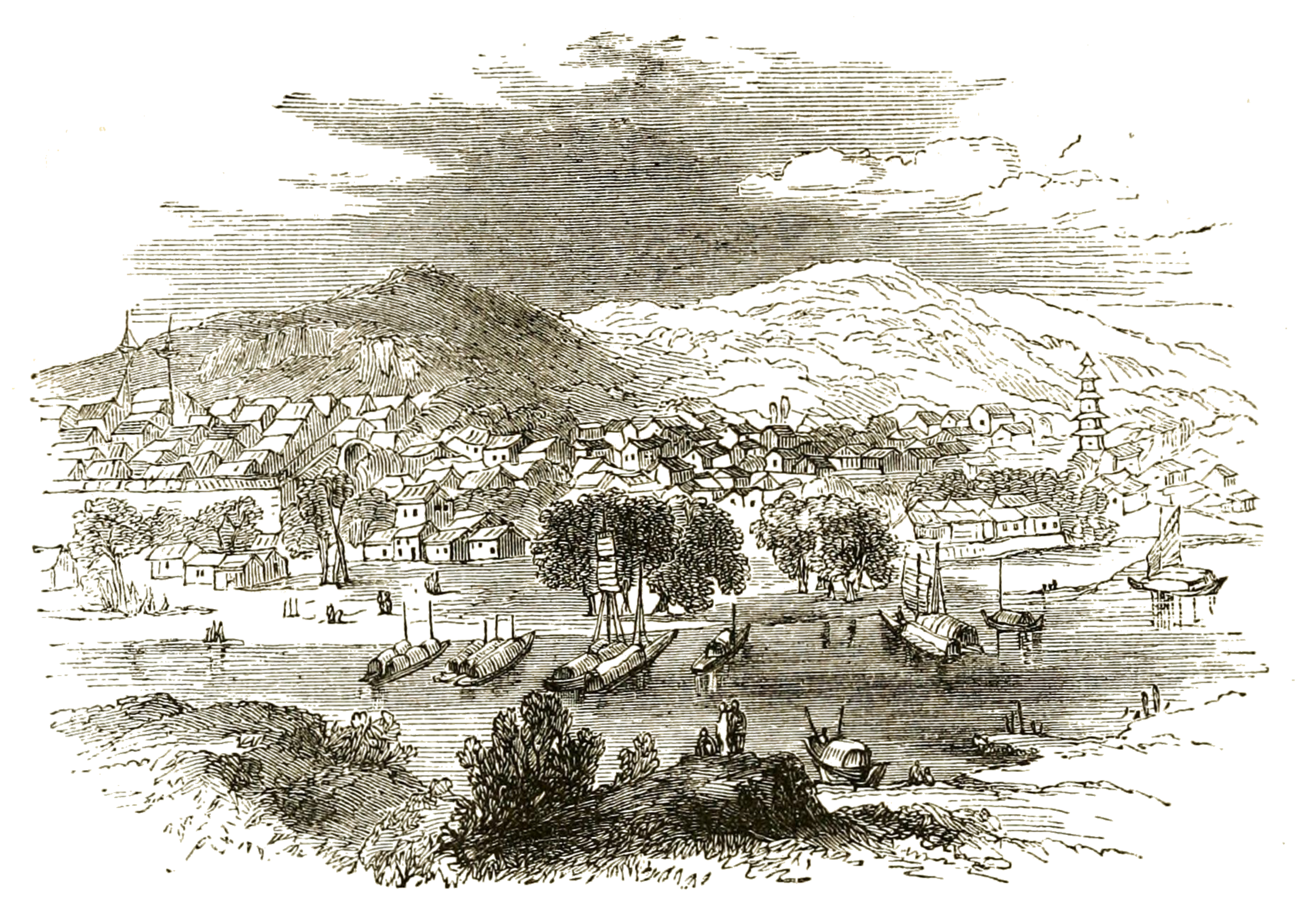 An engraving of a landscape depicting the recent Qing town of Hekou (Chinese: 河口, "River Mouth") or Tchagan-Kouren (Mongolian: Цагаан Хүрээ, Tsagaan Hüree, "White Camp" or "Town") as described by the French missionary and explorer Abbé Huc on his journey to Tibet. Formerly an important location at the confluence of the Dahei and Yellow Rivers for caravans passing east and west between the Gobi and Ordos deserts. Now a village administered by the town of Shuanghe in Togtoh County, Hohhot Prefecture, Inner Mongolia, China.